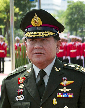 U.S. Army Gen. Martin E. Dempsey, chairman of the Joint Chiefs of Staff, and Thai Chief of Defense Forces Gen. Thanasak Patimaprakorn depart a ceremony in Bangkok, June 5, 2012.